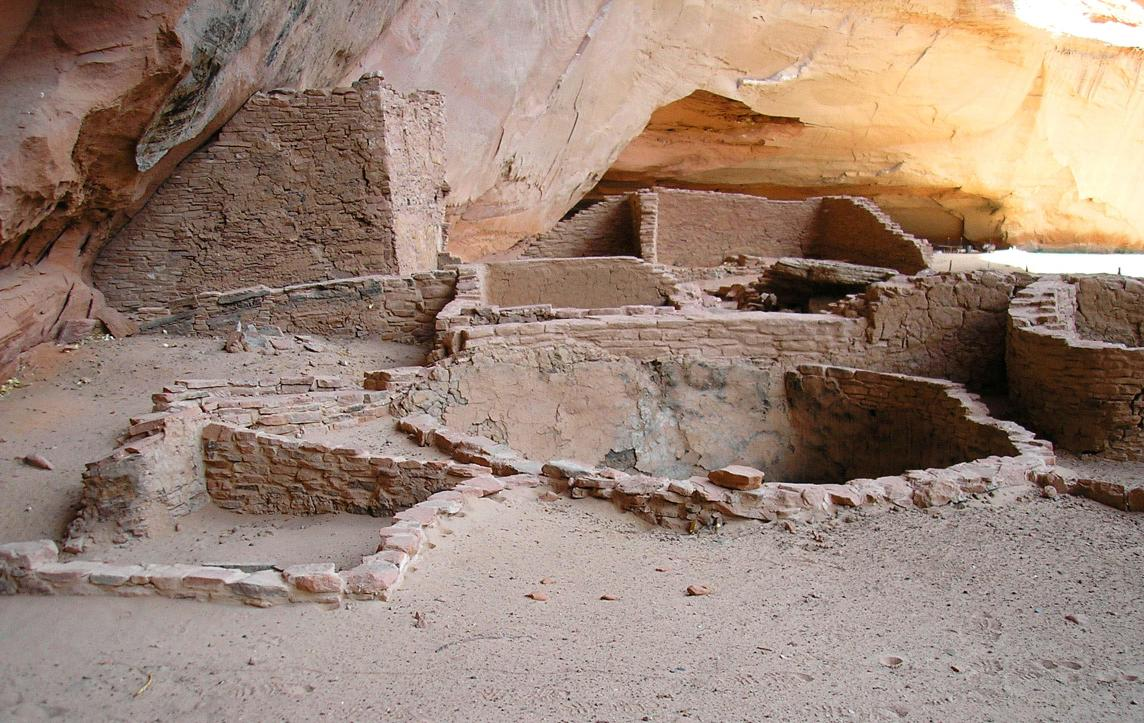 Canyon de Chelly National Monument, Arizona, USA. Antelope House, a Kiva in the foreground